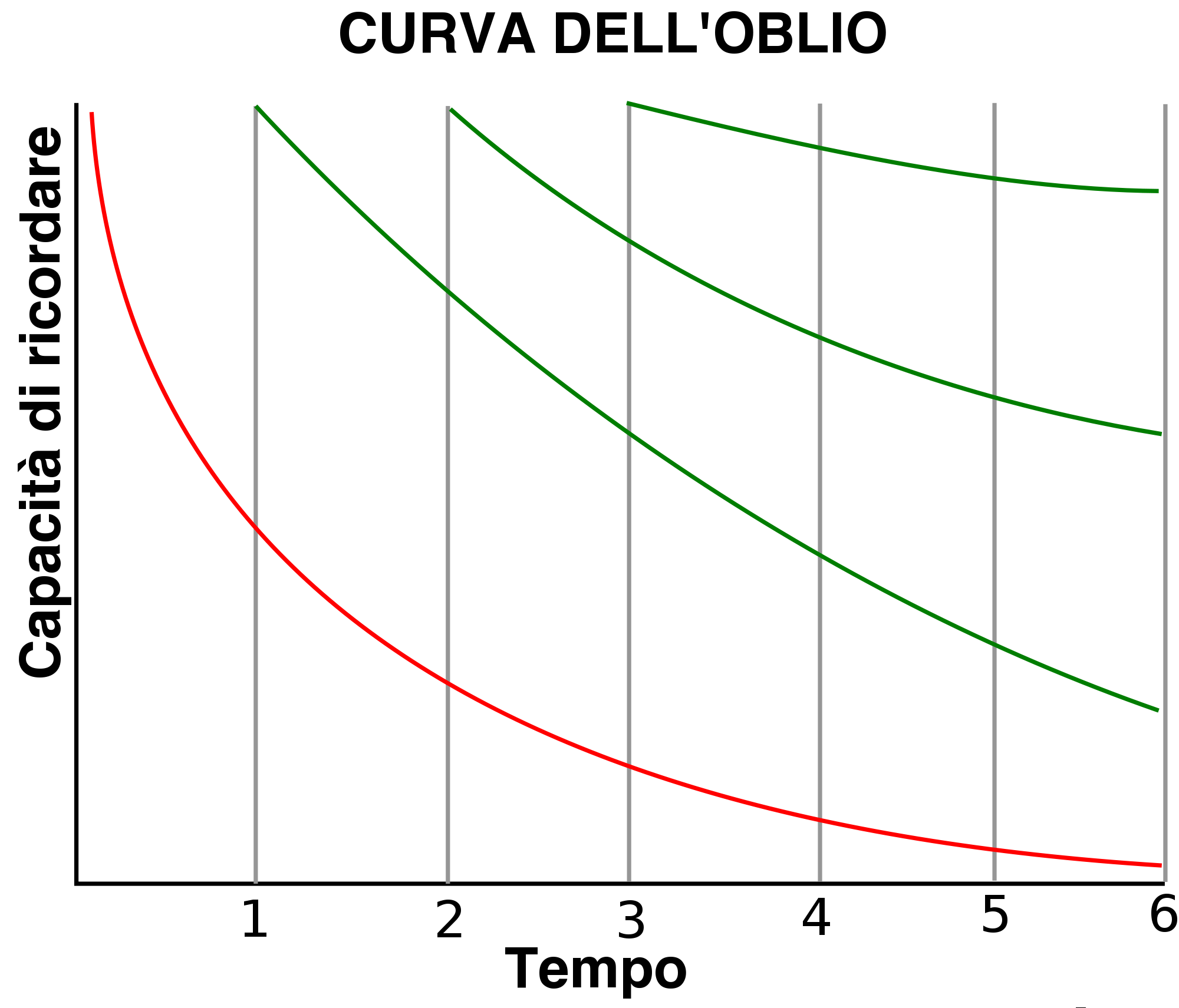 Forgetting curve, italian captions